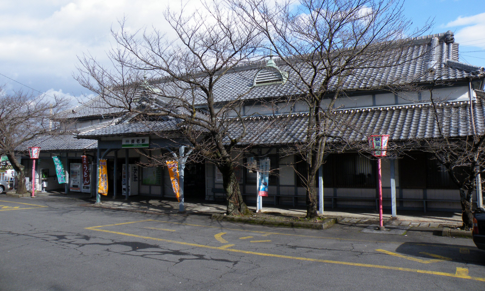 Yoro Railway Yoro Station